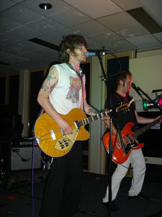 Tim Rogers with his band the Temperance Union, performing in Canberra